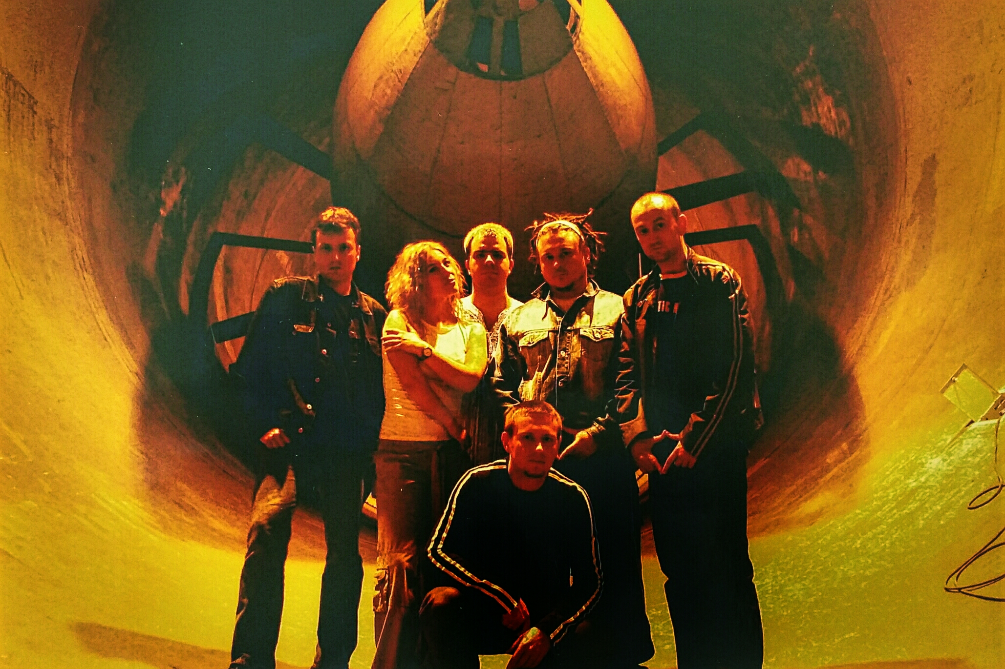 A photo from the film set of the La Disco music video taken at the PZL LOT hall in Warsaw Ochota